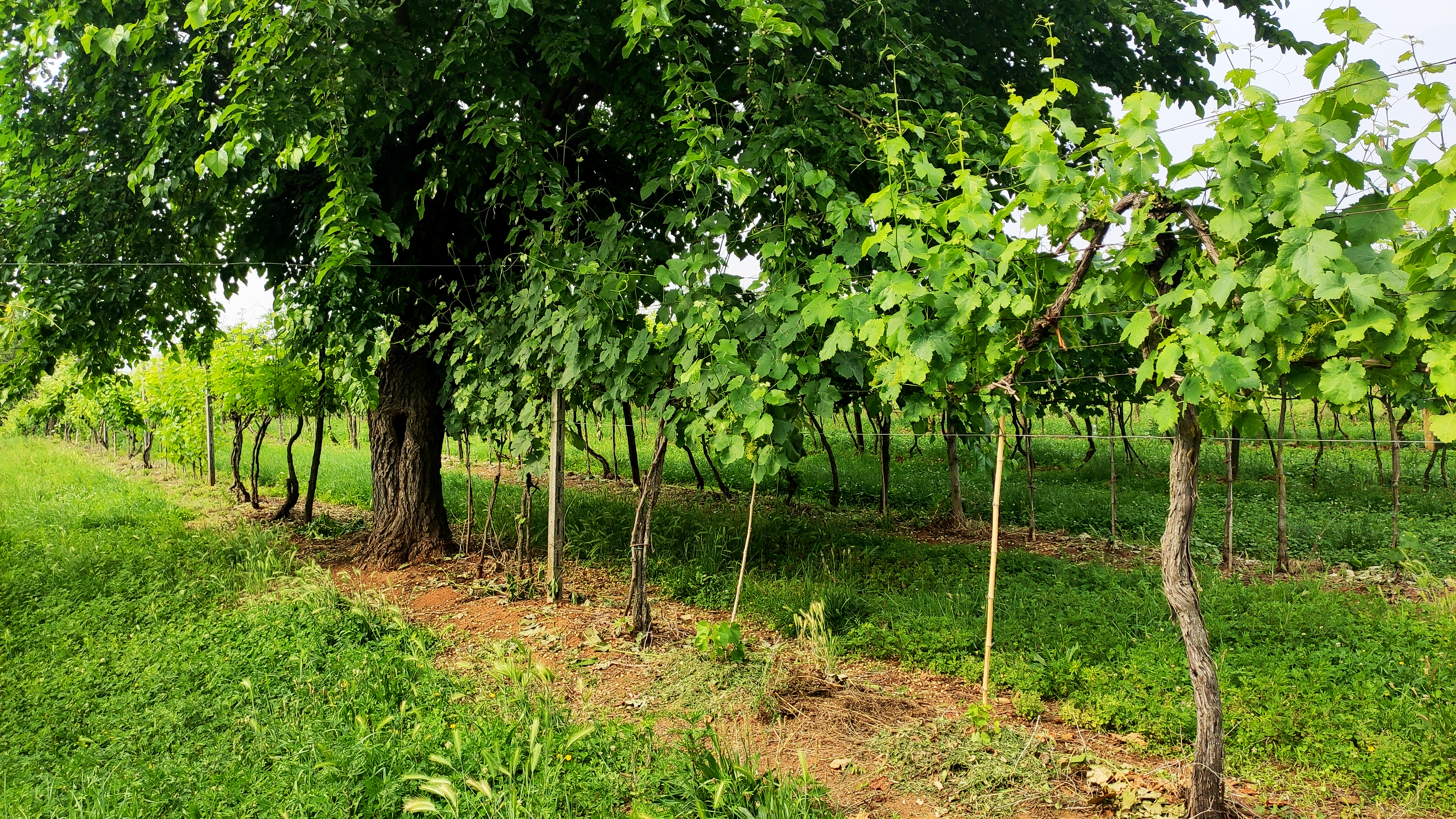 Grape fields in Castenedolo's hill